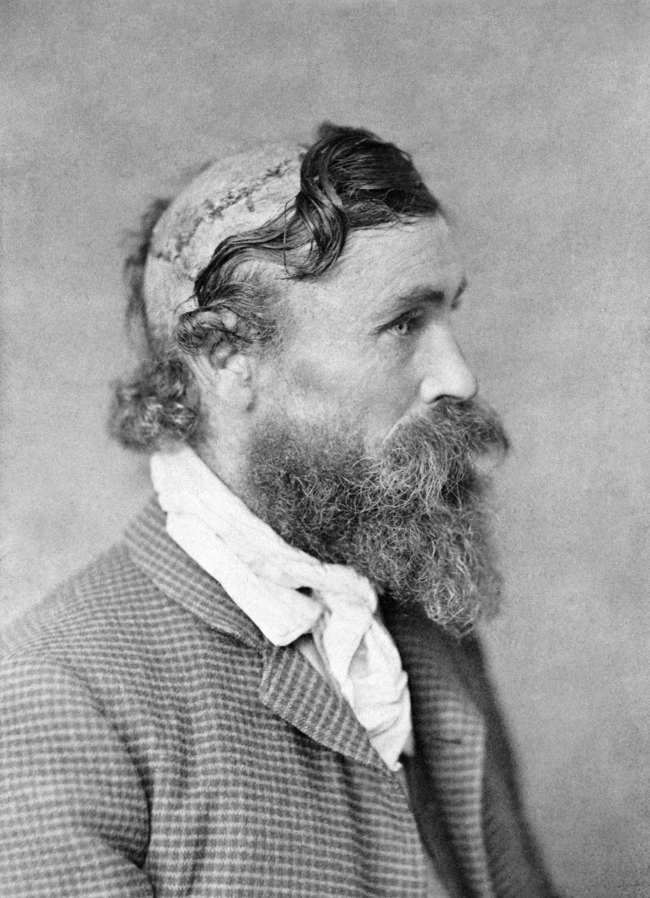 Edit of File:Robert McGee, scalped as a child by Sioux Chief Little Turtle in 1864-2.jpg. Description of that file follows. "Robert McGee, scalped by Sioux Chief Little Turtle in 1864." Robert McGee, head-and-shoulders portrait, facing right, showing effects of being scalped as a child. Photographic print on cabinet card.